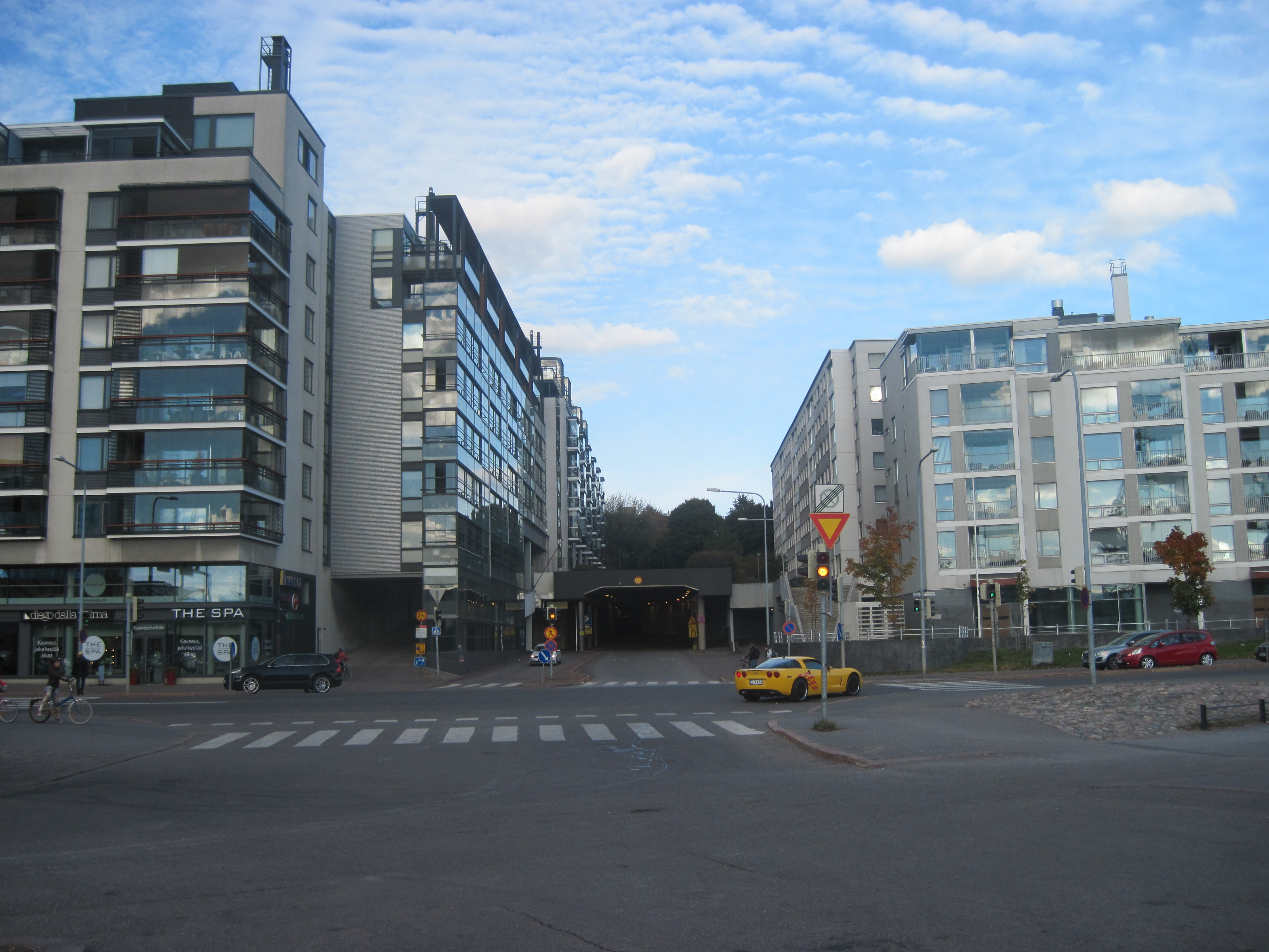 Mallaskatu in Helsinki